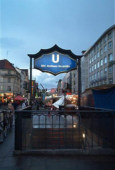 Southern exit of Berlin's underground station Rathaus Neukölln